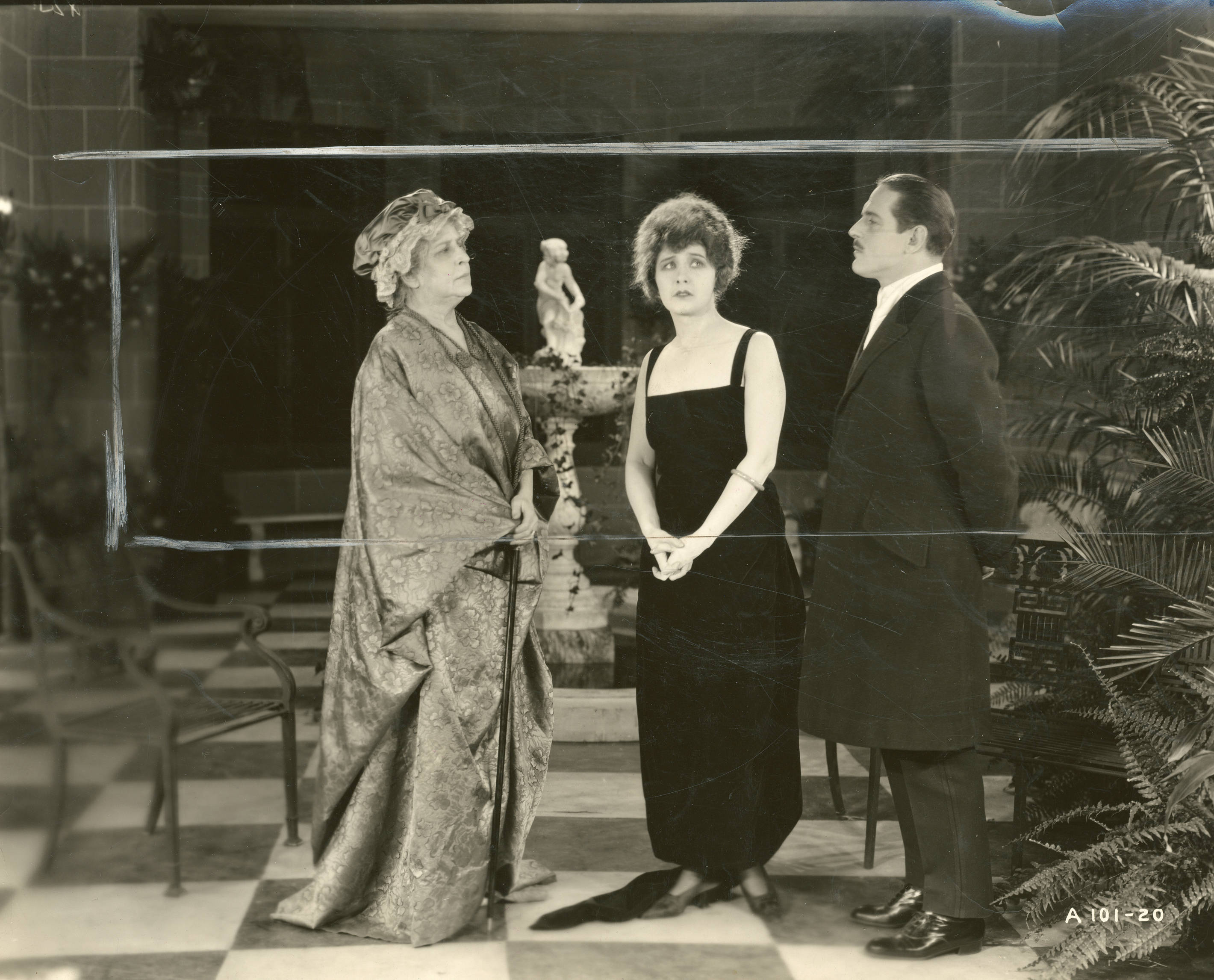 A scene from the American drama film Lady Rose's Daughter (1920) which played at the Coliseum Theater, Seattle. Includes Elsie Ferguson (left) with fellow actors Elsie Ferguson and David Powell. Date stamped Sept. 18, 1920. Subjects: motion pictures, actresses